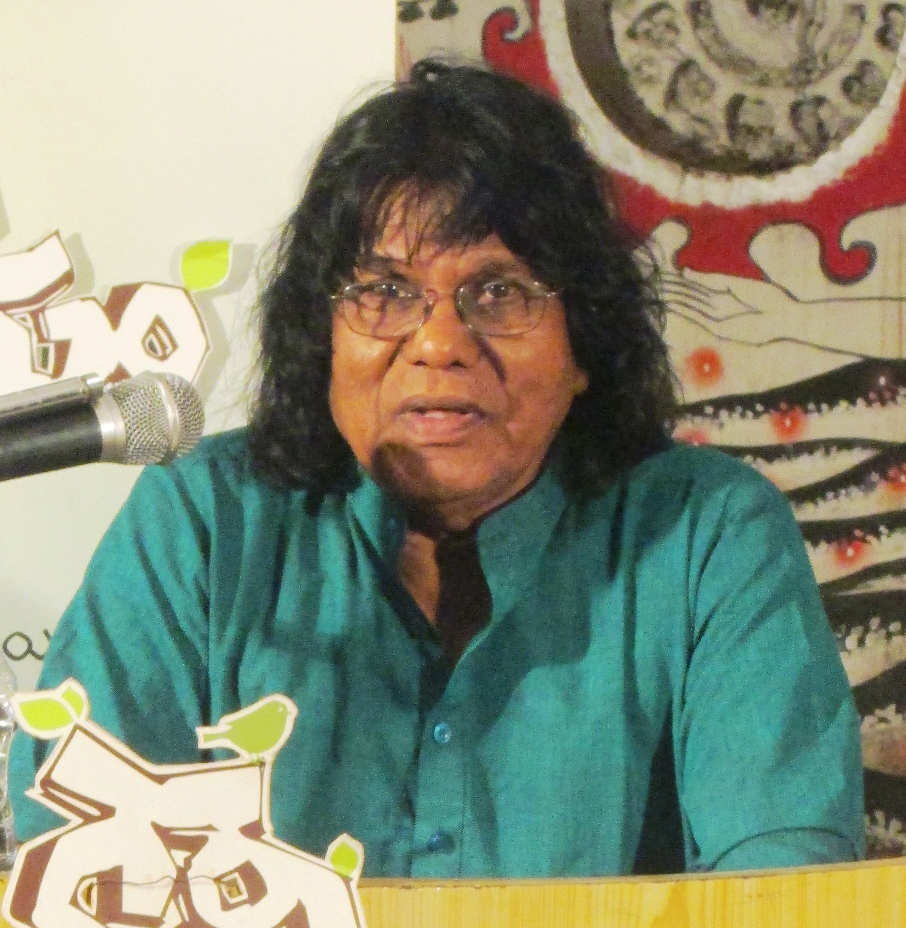 Asha Raju